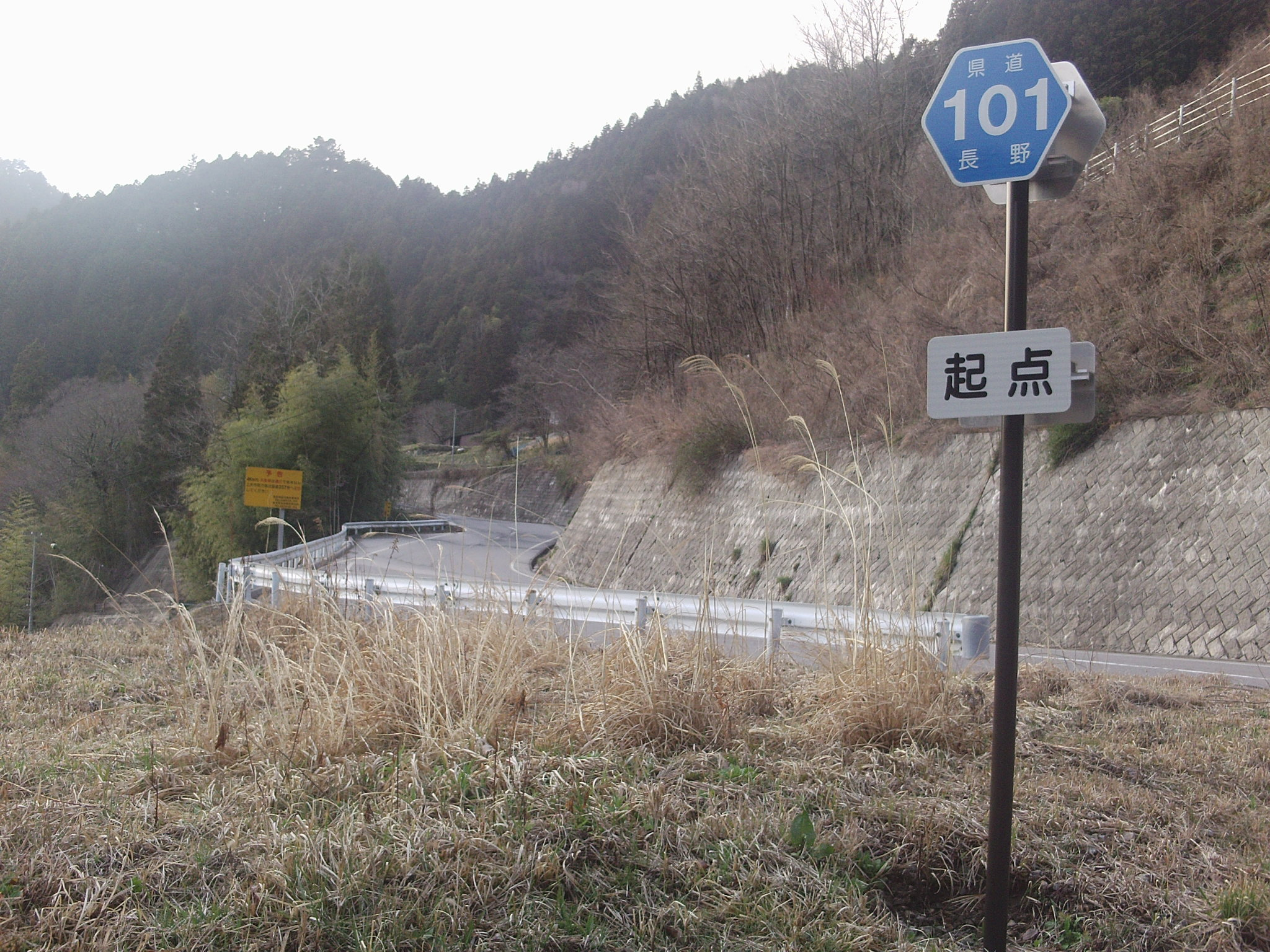 Nagano prefectural road No.101 in Tsukise, Neba-mura, Shimoina-gun, Nagano.